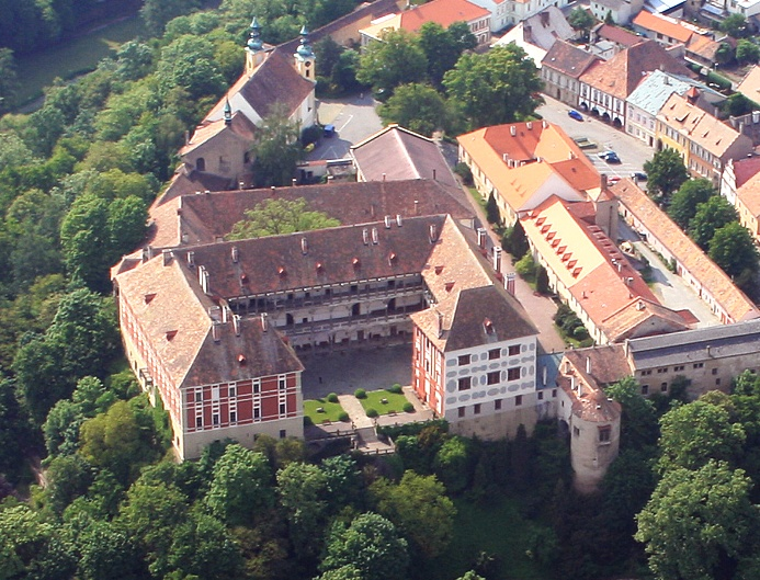 Opočno castle and Opočno town from air, eastern Bohemia, Czech Republic